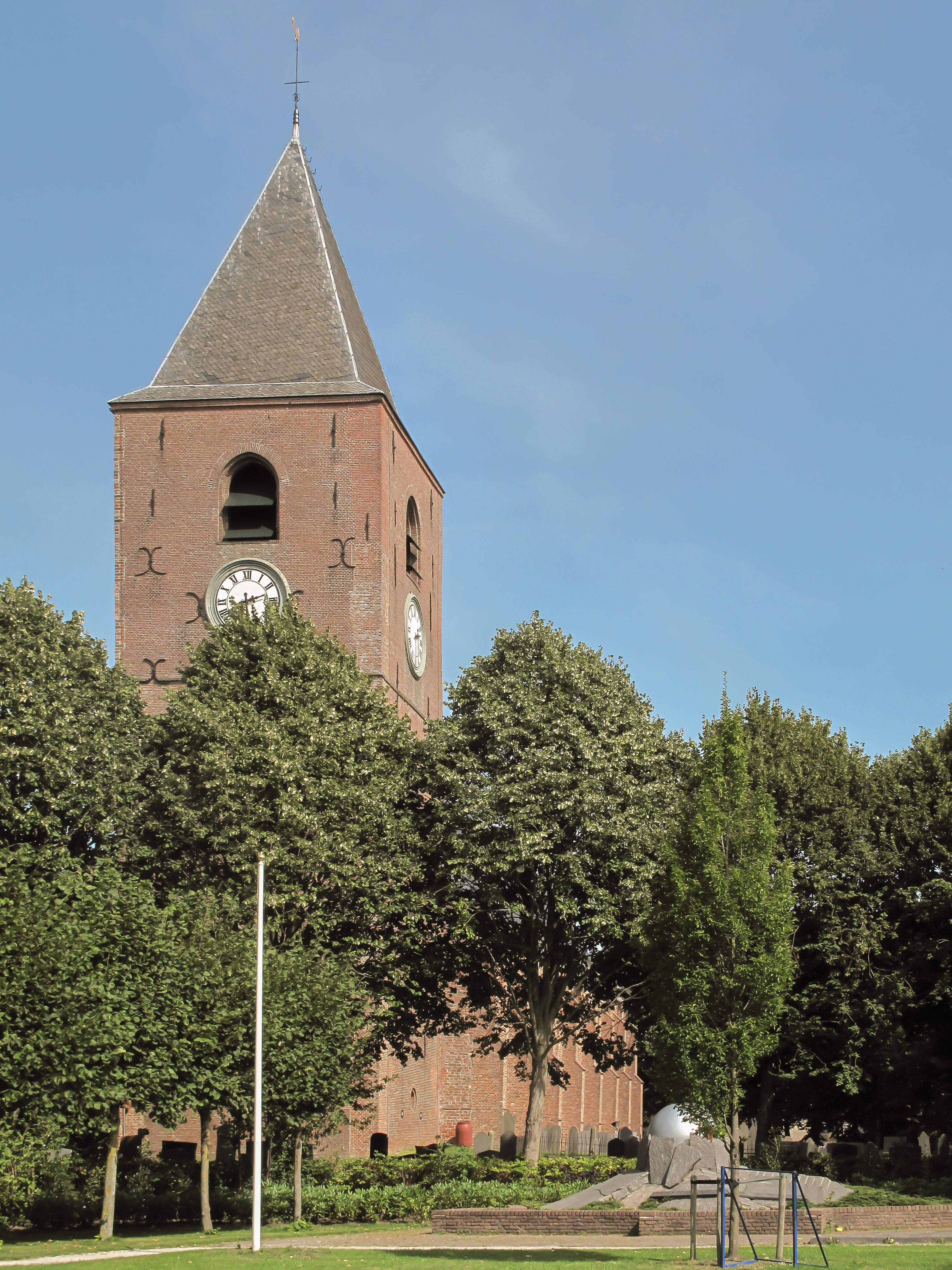 Buitenpost, church: de Mariakerk